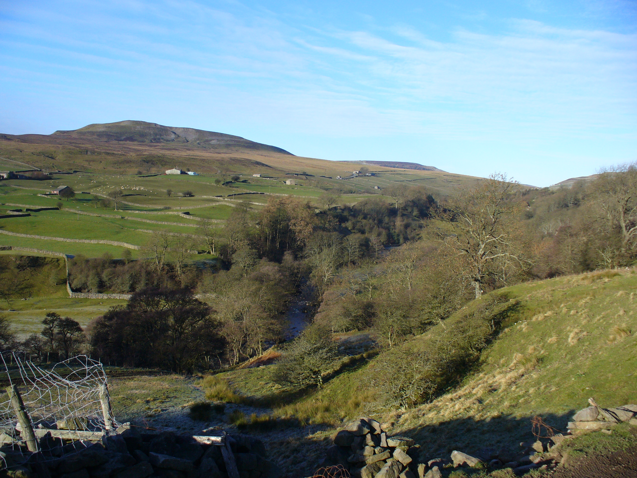 Arkengathdale, North Yorkshire, England.